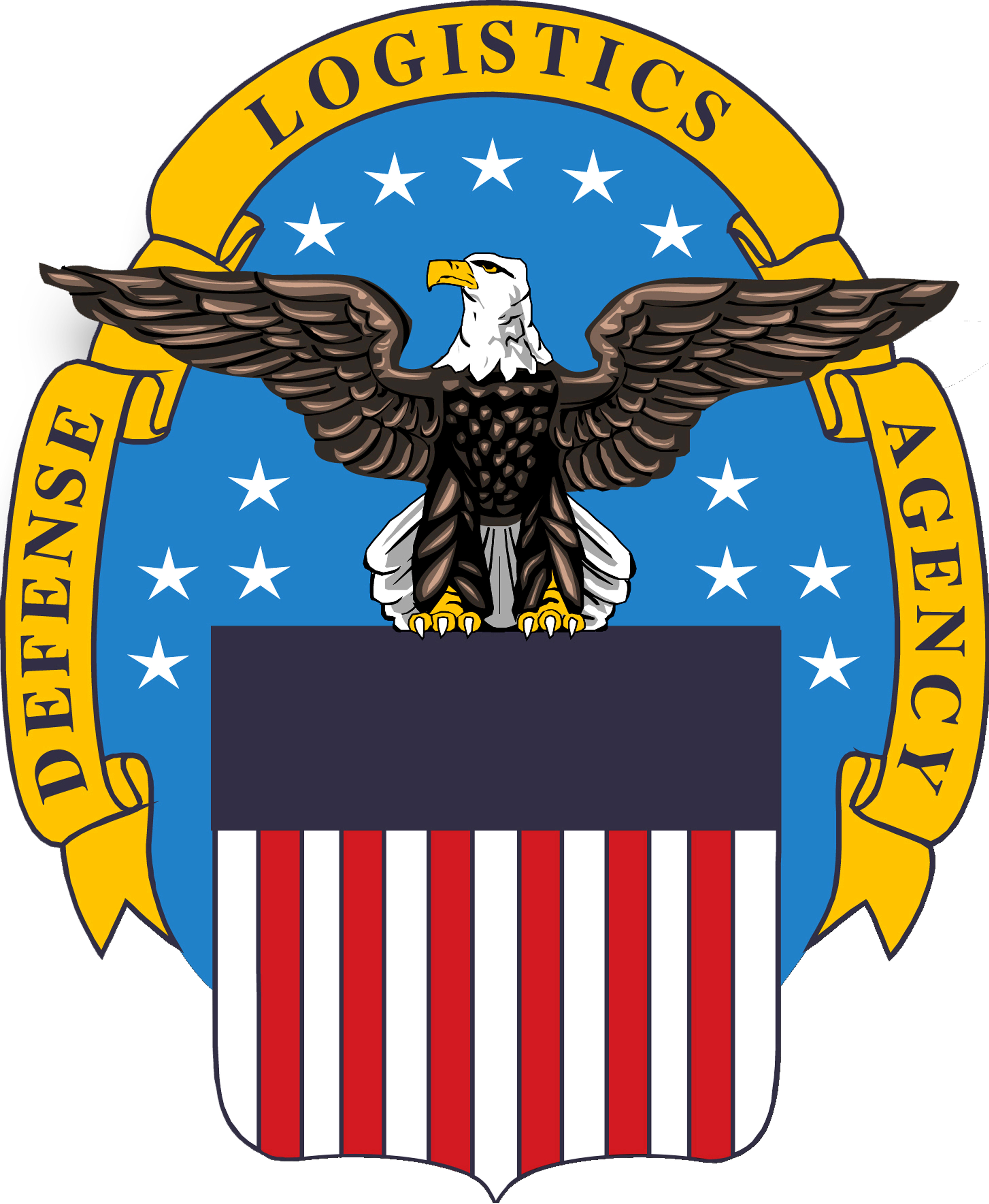 Defense Logistics Agency crest from [1]